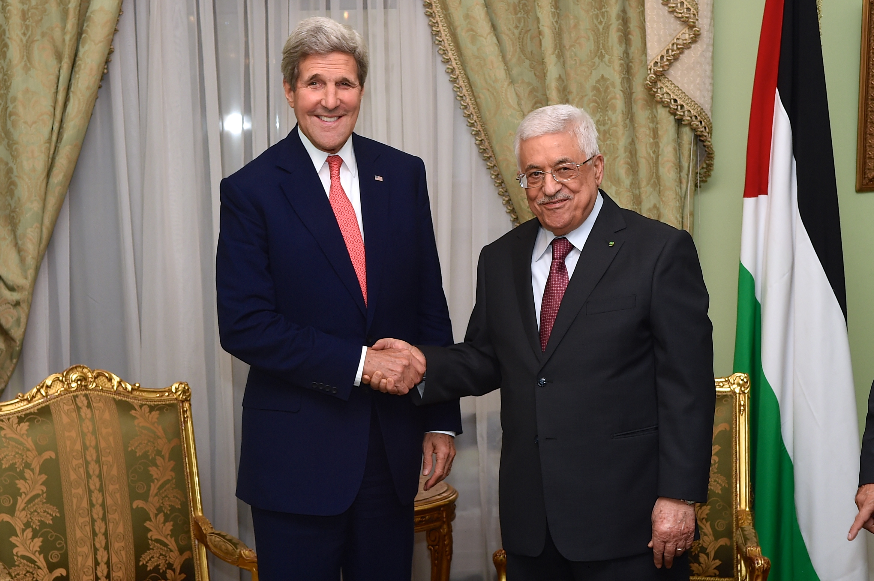 U.S. Secretary of State John Kerry shakes hands with Palestinian Authority President Mahmoud Abbas during a meeting on the sidelines of the Gaza Donors Conference organized by Egypt and Norway in Cairo, Egypt, on October 12, 2014.